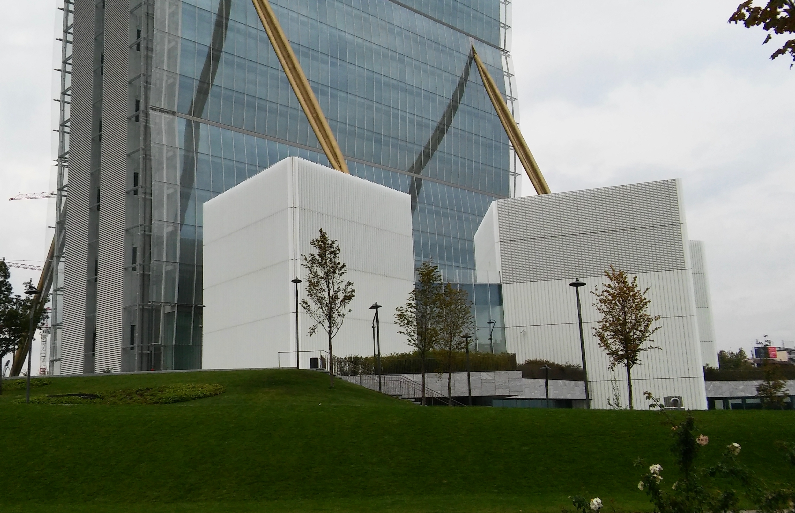 Le Tre Torri - CityLife a Milano